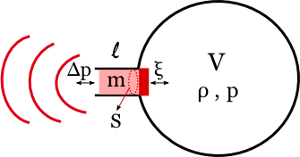 Schematics Helmholtzresonator